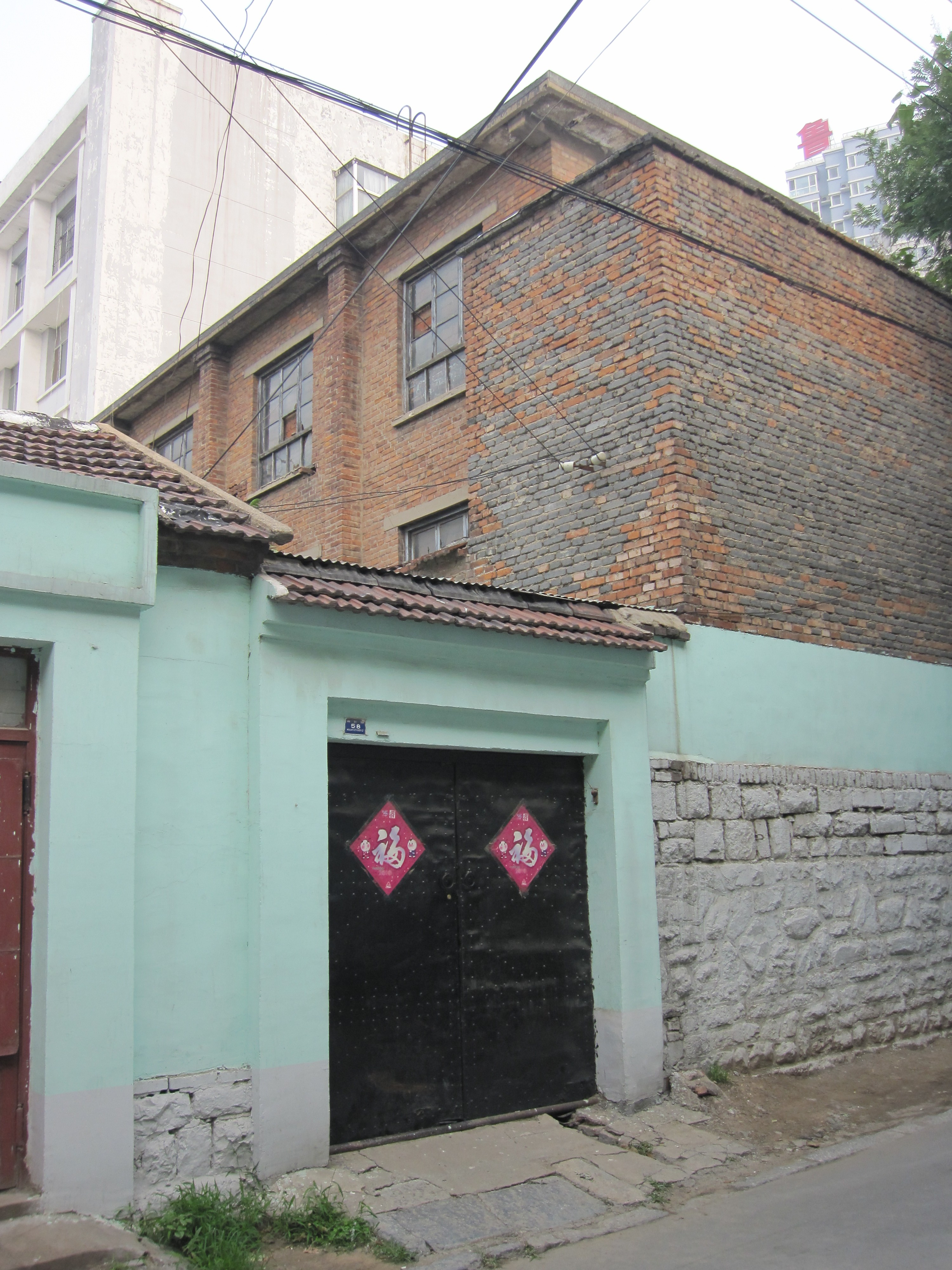 Former residence of the writer Lao She in Jinan China, address: 南新街58号.